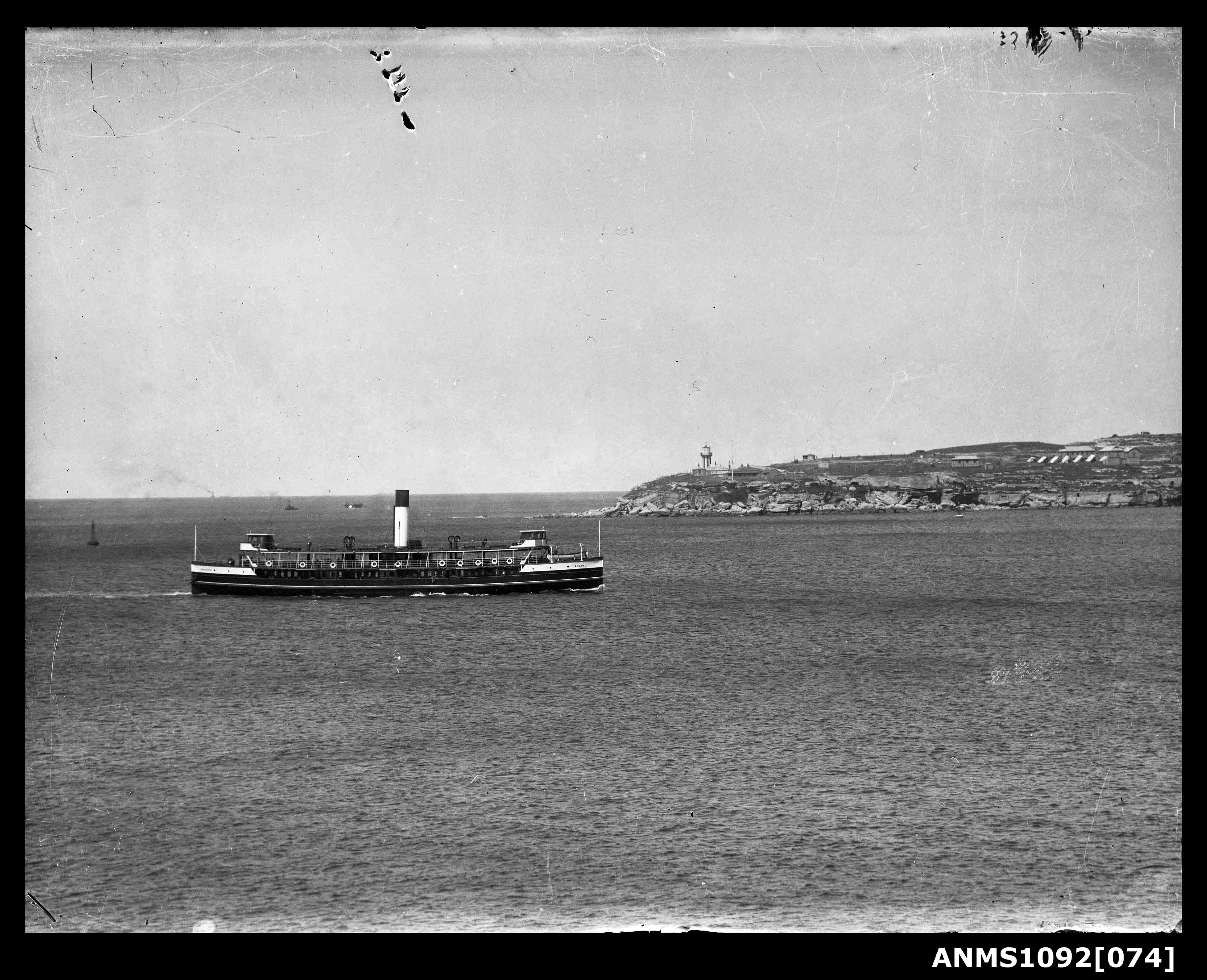 This photo is part of the Australian National Maritime Museum’s William J Hall collection. The Hall collection provides an important pictorial record of recreational boating in Sydney Harbour, from the 1890s to the 1930s – from large racing and cruising yachts, to the many and varied skiffs jostling on the harbour, to the new phenomenon of motor boating in the early twentieth century. The collection also includes images of the many spectators and crowds who followed the sailing races. The ANMM undertakes research and accepts public comments that enhance the information we hold about images in our collection. This record has been updated accordingly. Object no. ANMS1092[074]